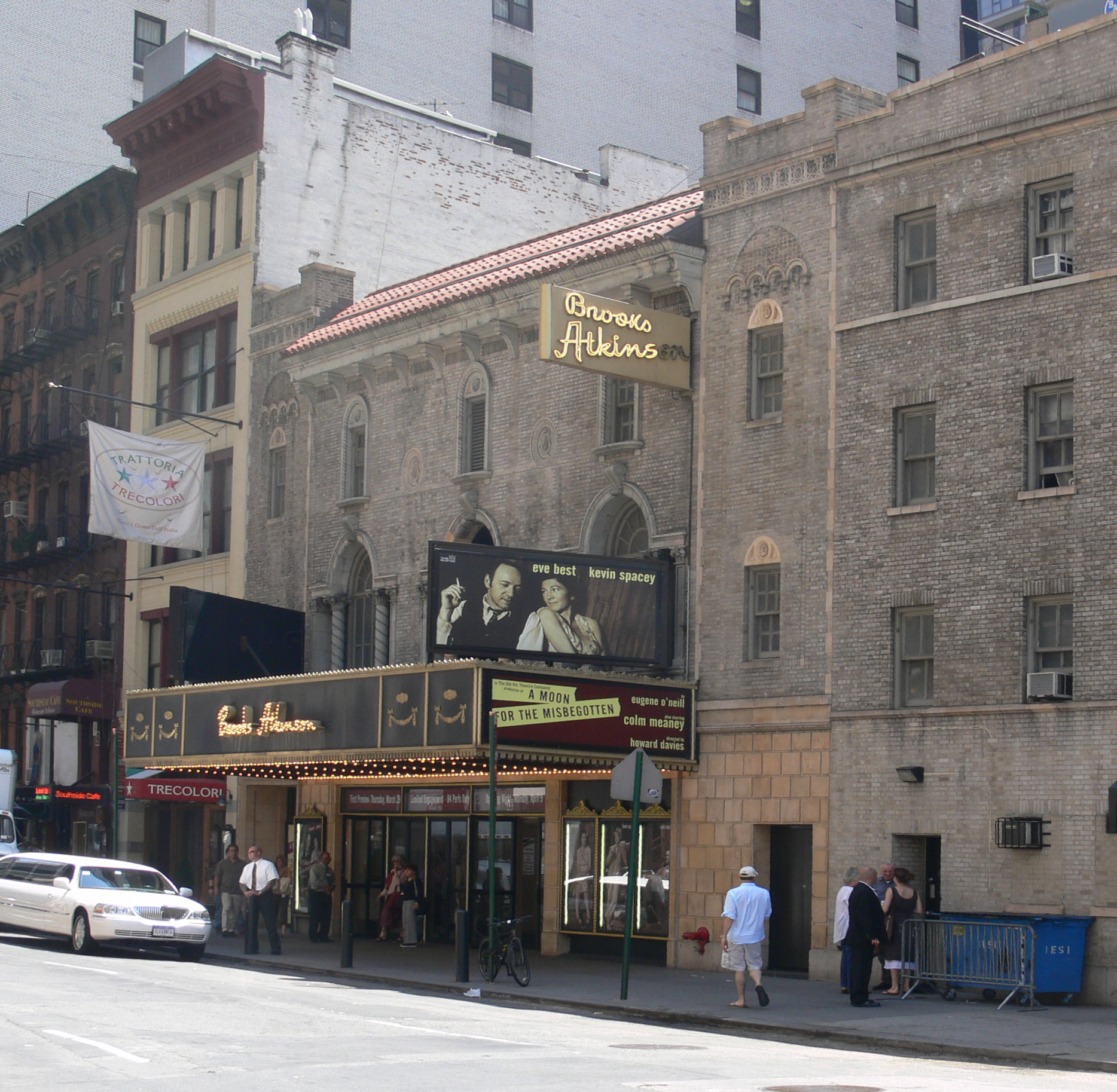 Brooks Atkinson Theatre, showing A Moon for the Misbegotten 256 West 47th Street, Manhattan, New York City